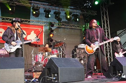 Tito & Tarantula